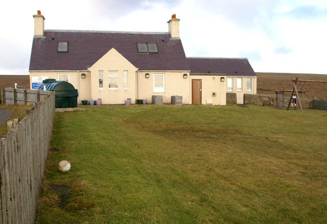 Fetlar Primary School As the population of Fetlar dwindles down to around 50, the school currently has just two pupils.